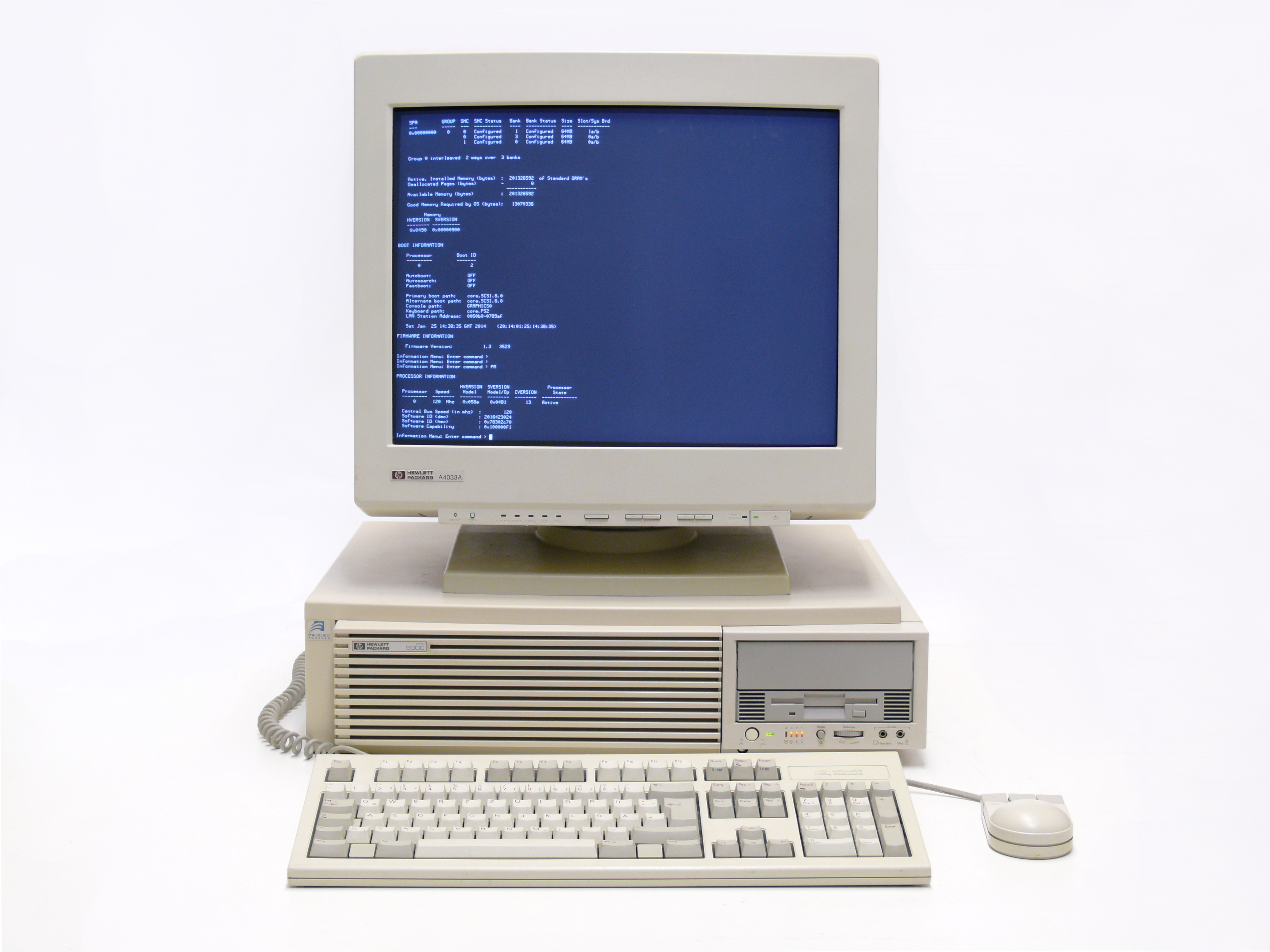 Hewlett-Packard HP9000 Unix Workstation C-Class, Model C110, PA-RISC 7200 CPU - 32 Bit - 120 MHz, max. 1 GByte RAM, SCSI2 SE, SCSI2 Fast Wide Differential, 10 MBit LAN, 16 Bit Audio, EISA, HIL, PS2, HP A4033A 20inch Color CRT